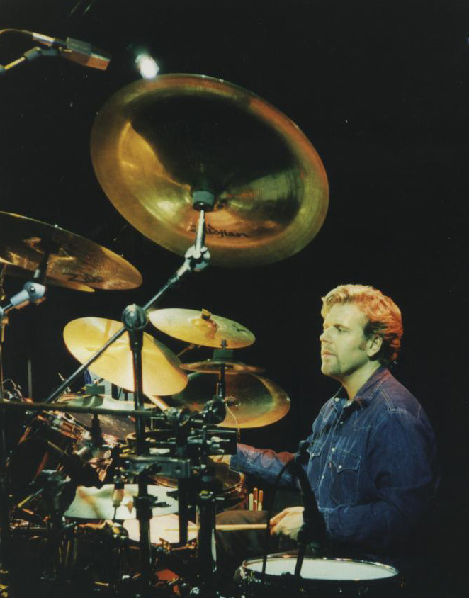 John Trotter, Drummer with Manfred Mann's Earth Band 1996-2000.